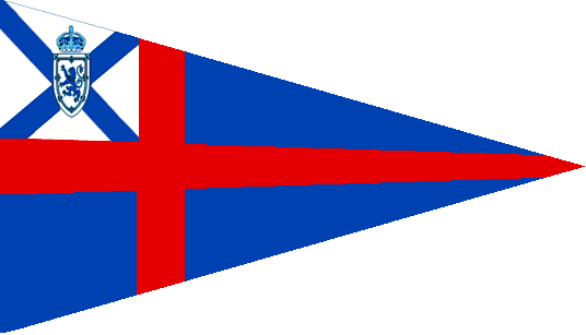 Yacht club flag